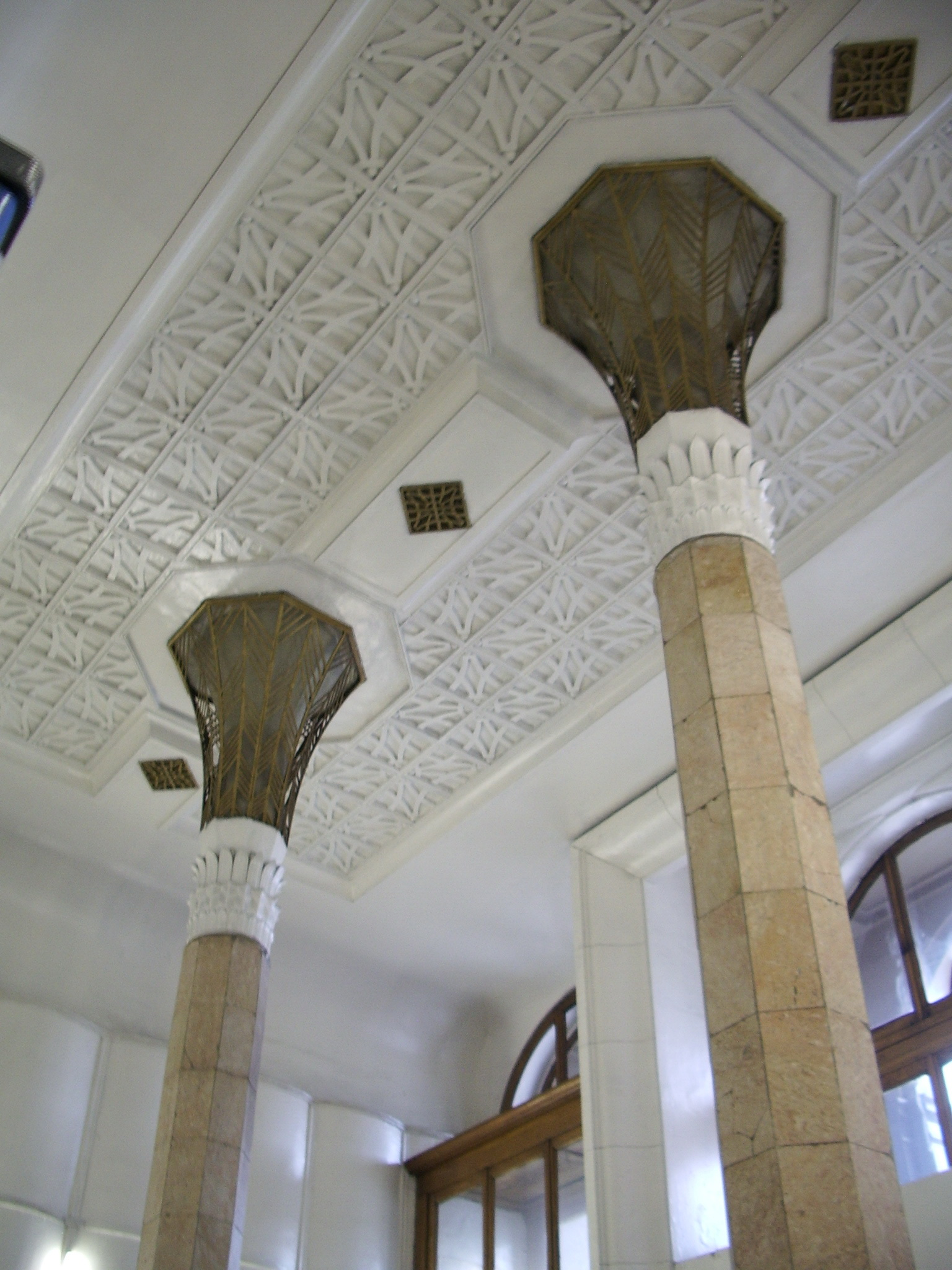 Columns in the "Aeroport" metro vestibule. Moscow.